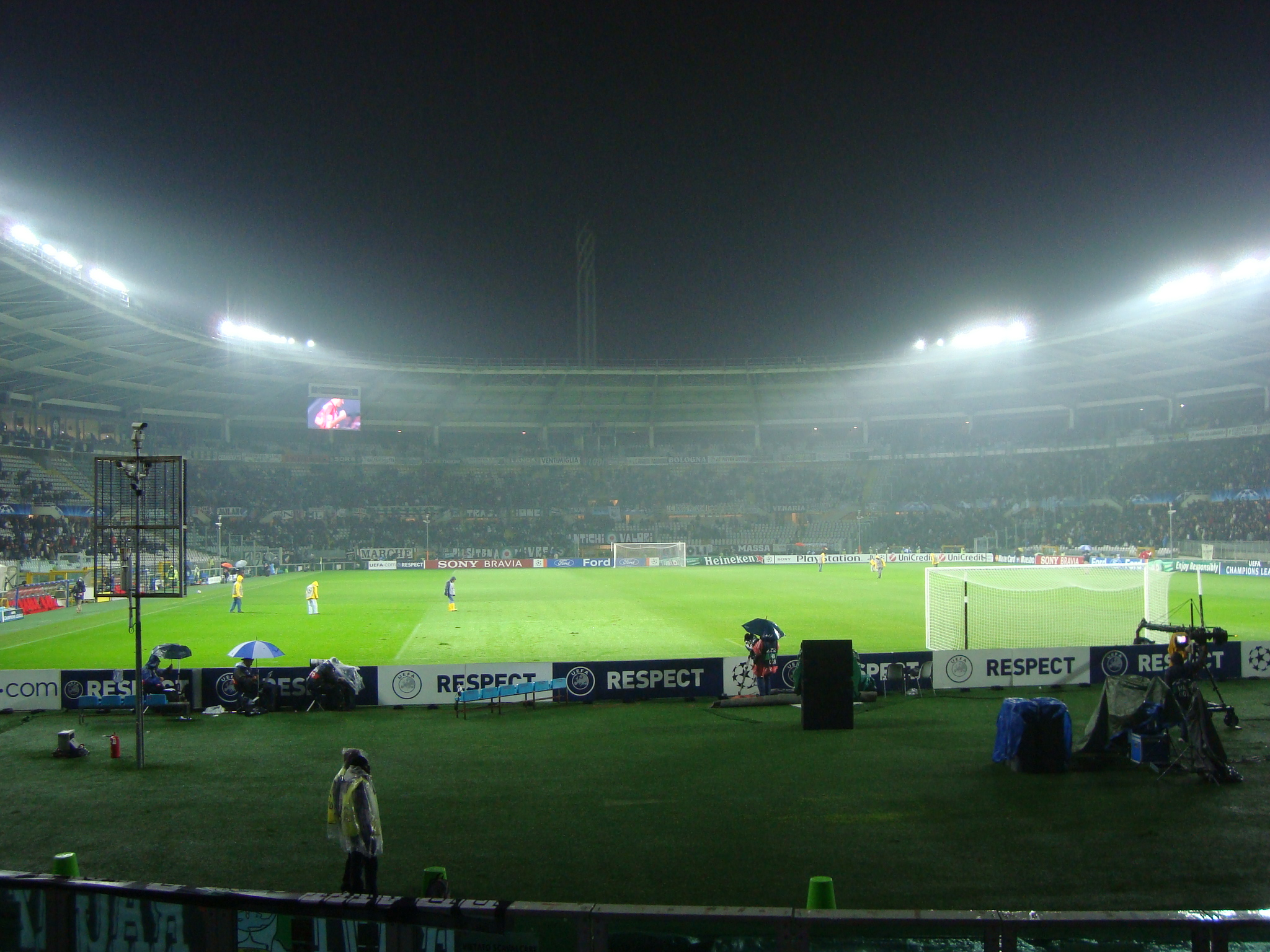 Stadio Olimpico in Torino. Juventus-Maccabi